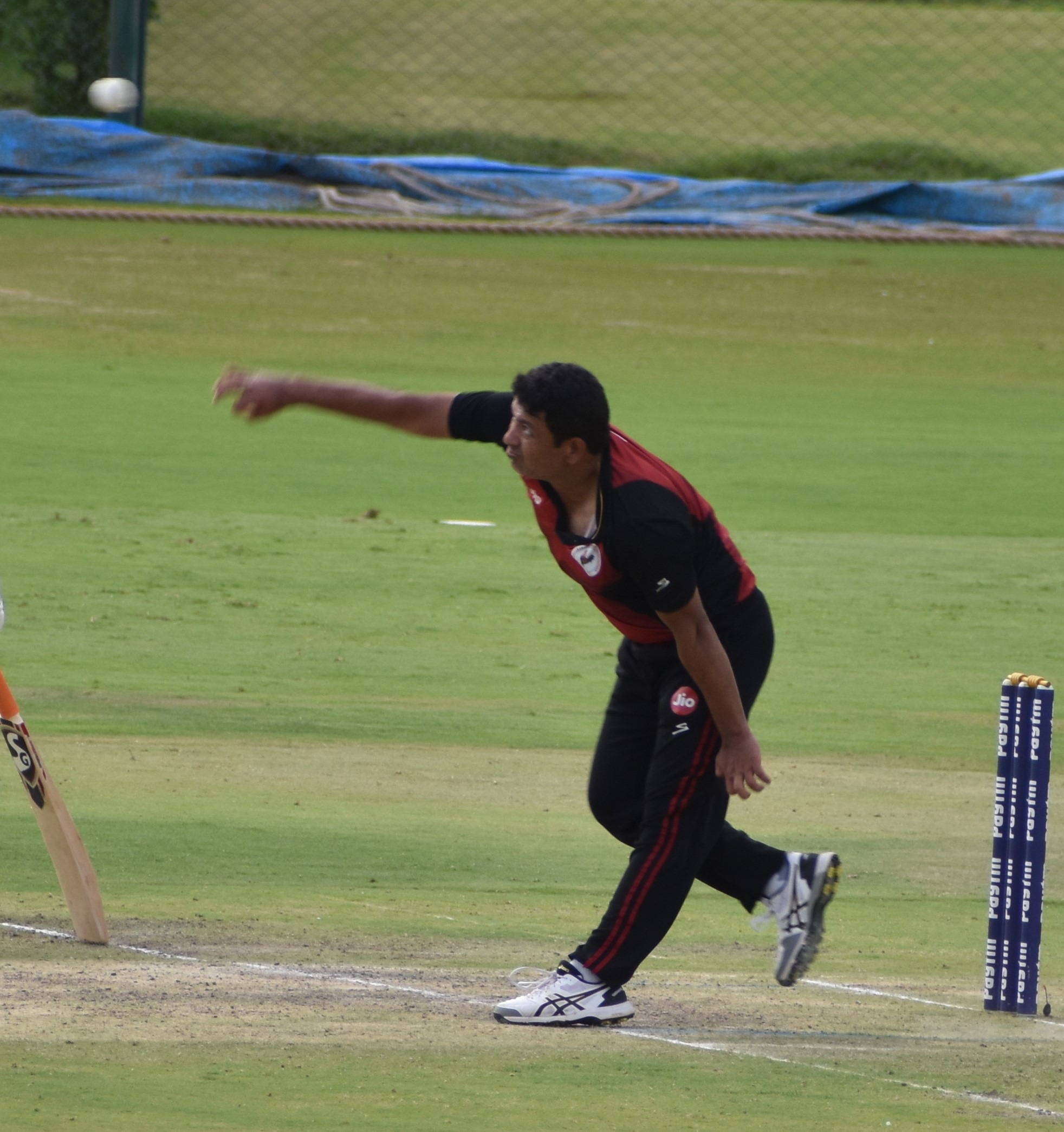 Indian cricketer Piyush Chawla during the 2019-20 Vijay Hazare Trophy in Rajanukunte, Bangalore.